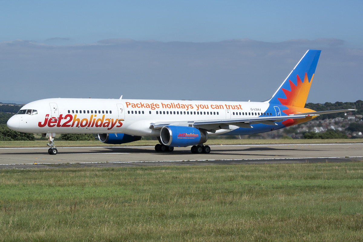 Jet2 Boeing 757-200 G-LSAJ at Leeds Bradford Airport.